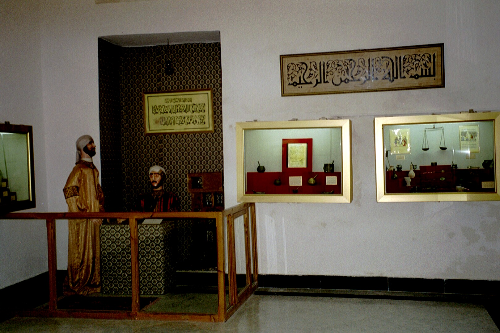 Nur al-Din Bimaristan, Damascus, Syria. Picture taken by me in June, 2001, with an automatic Olympus mju:zoom140 camera